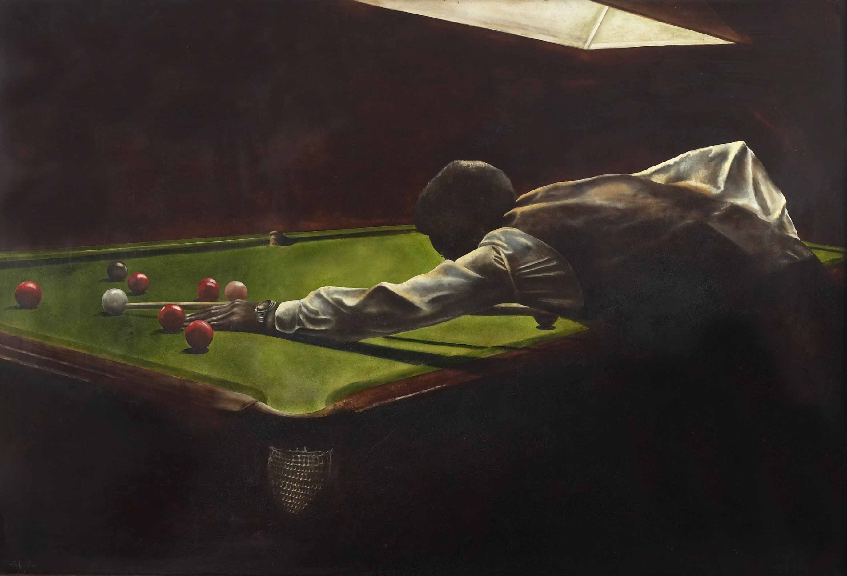 Oil On Panel. Errol Fuller.